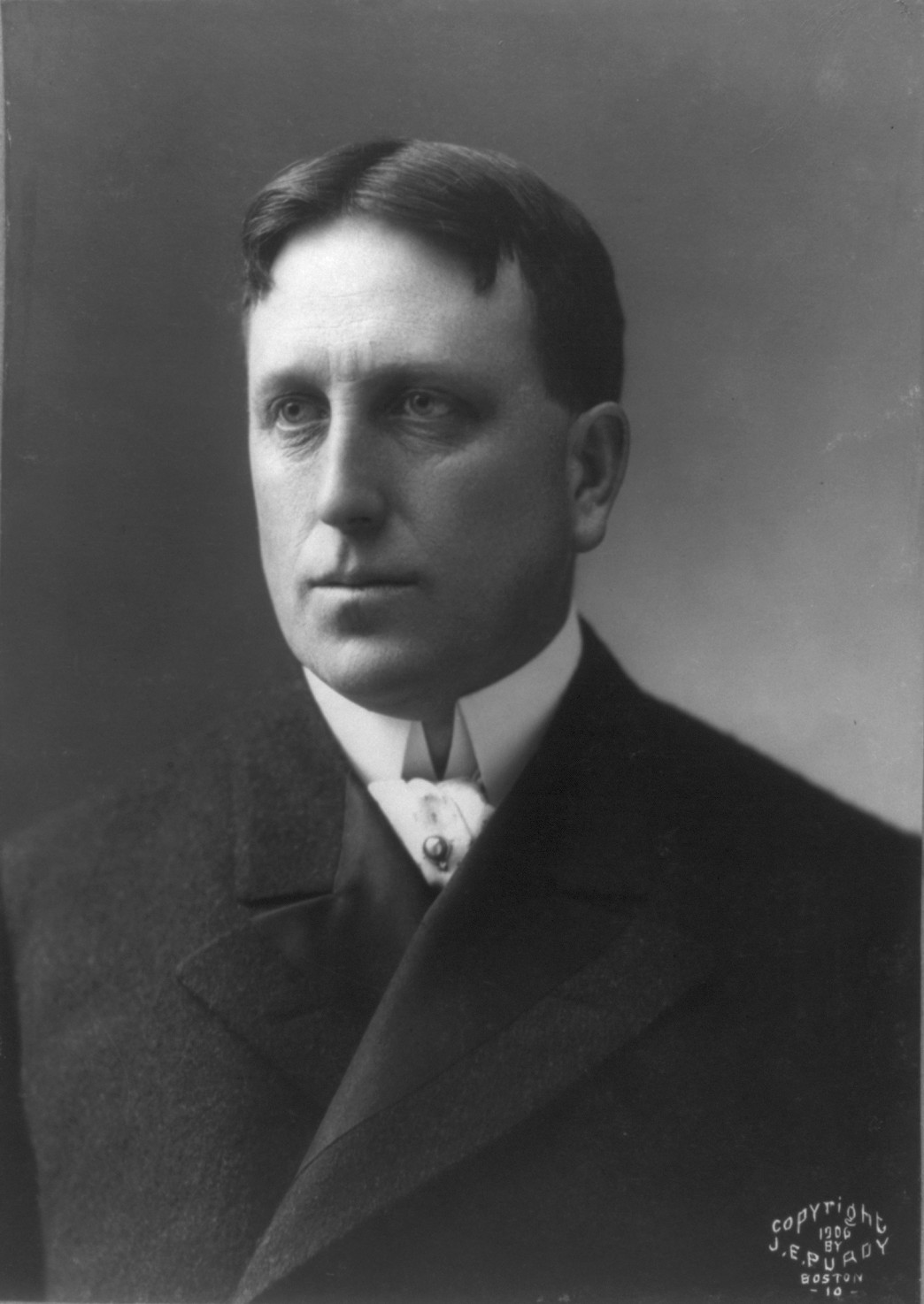 William Randolph Hearst, American newspaper mogul